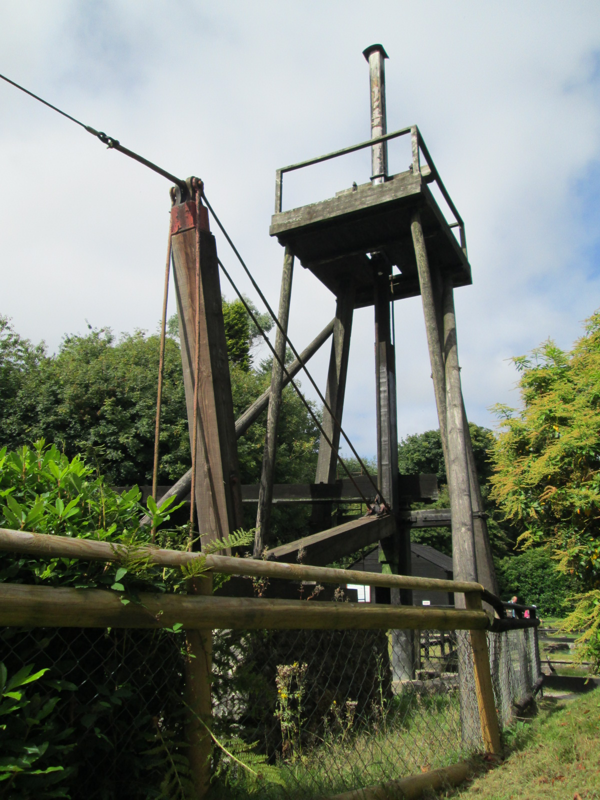 The slurry pump at Wheal Martyn, for moving clay slurry to settling pits.